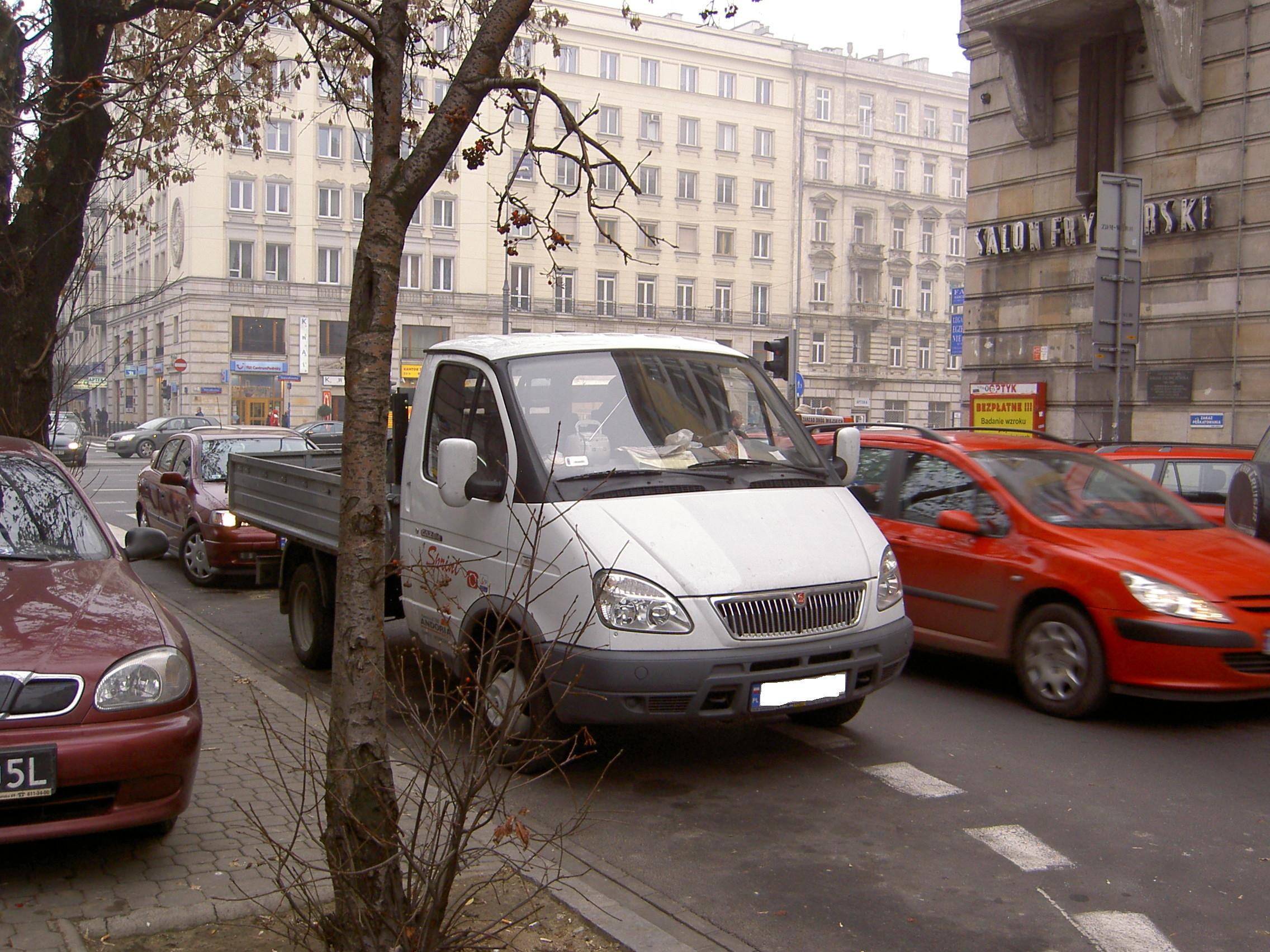 GAZ-elle seen on Wilcza Street in Warsaw, Poland.